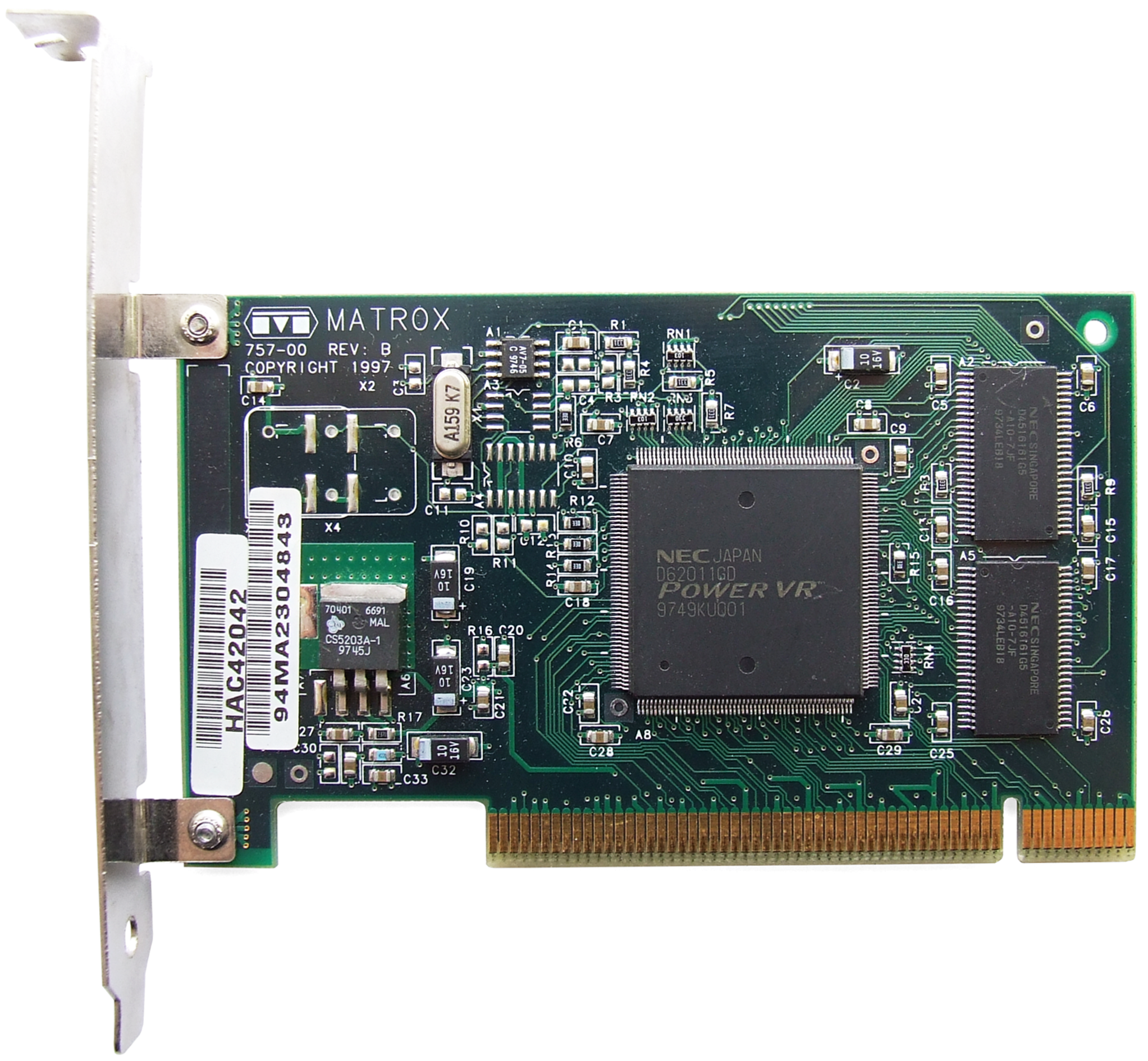 Matrox m3D (MAT-M3D/I) add-on accelerator card, PCB revision 757-00B. It is based on the PowerVR Series1 series of GPUs, which was manufactured by NEC as the PCX2 (part number D62011GD), and equipped with 4 MB of SDRAM. As there are no built-in 2D capabilities whatsoever, a primary video card is required for 2D rendering such as the Windows desktop.